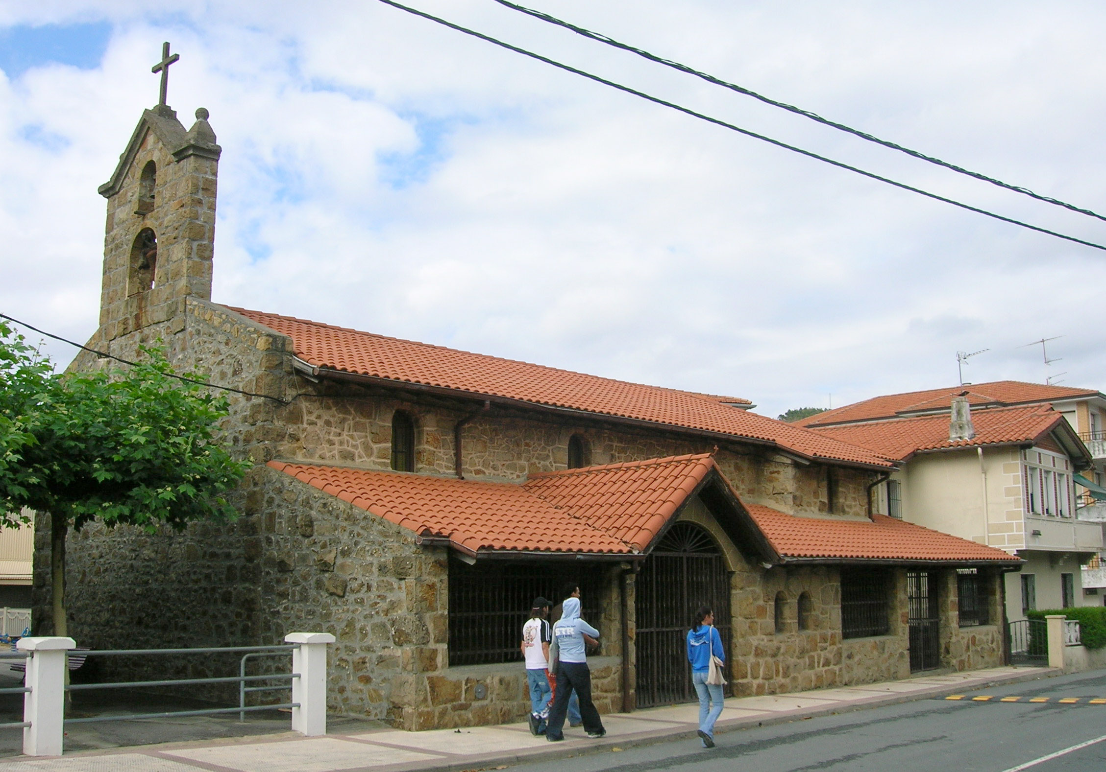 Description: Church and priesthouse in Armintza, Lemoiz, Biscay, Spain. Photographer: Javier Mediavilla Ezquibela Date: July 4, 2005.